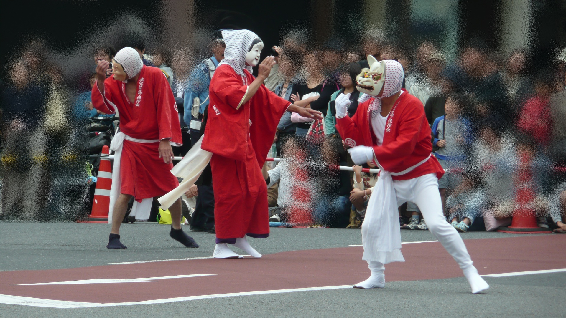 Miyazaki Shrine Grand Festival in 2008 - Hyottoko Odori.